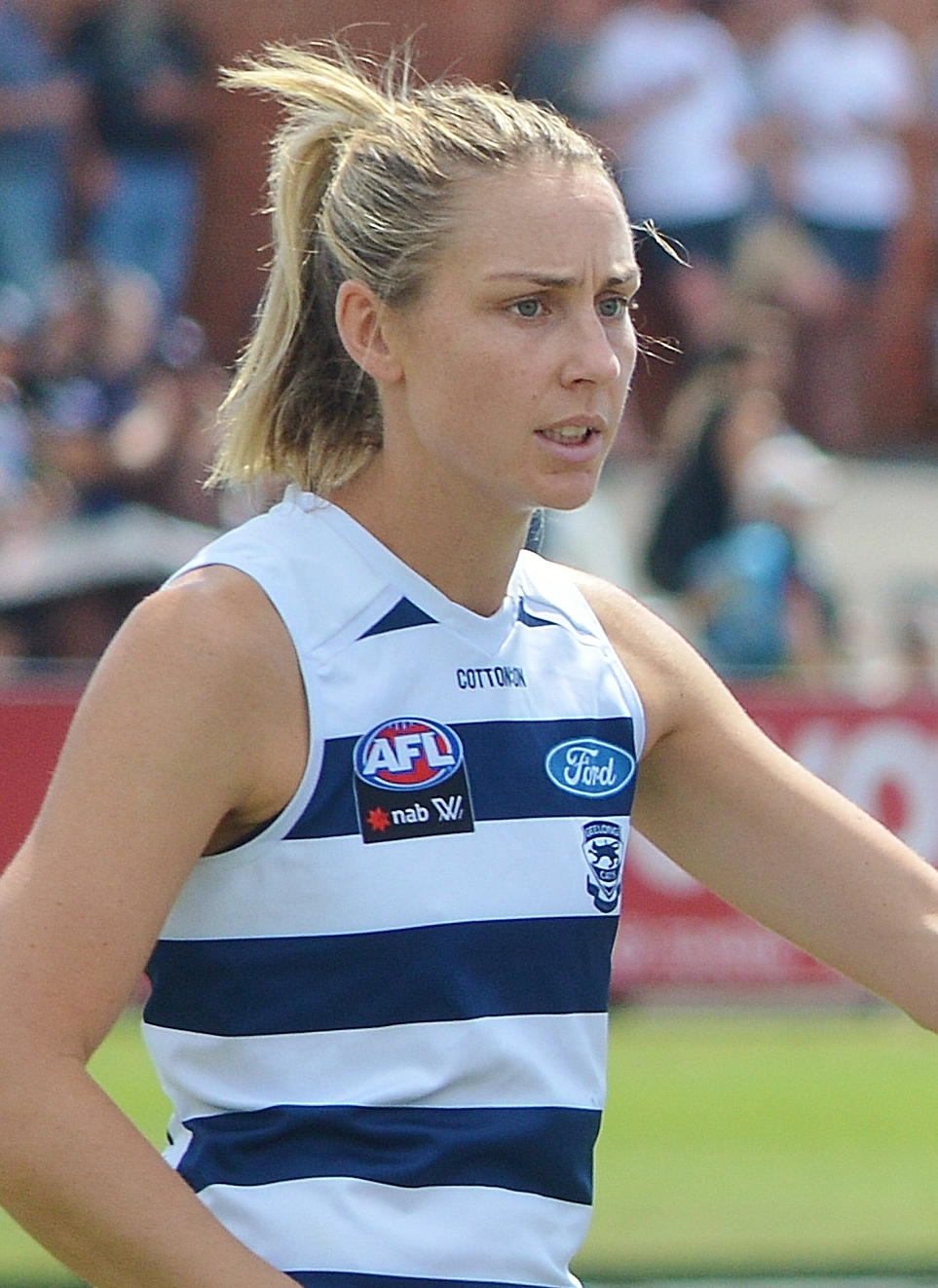 Maddy McMahon with Geelong in the round 4 2020 AFLW match against Richmond at Queen Elizabeth Oval in Bendigo.